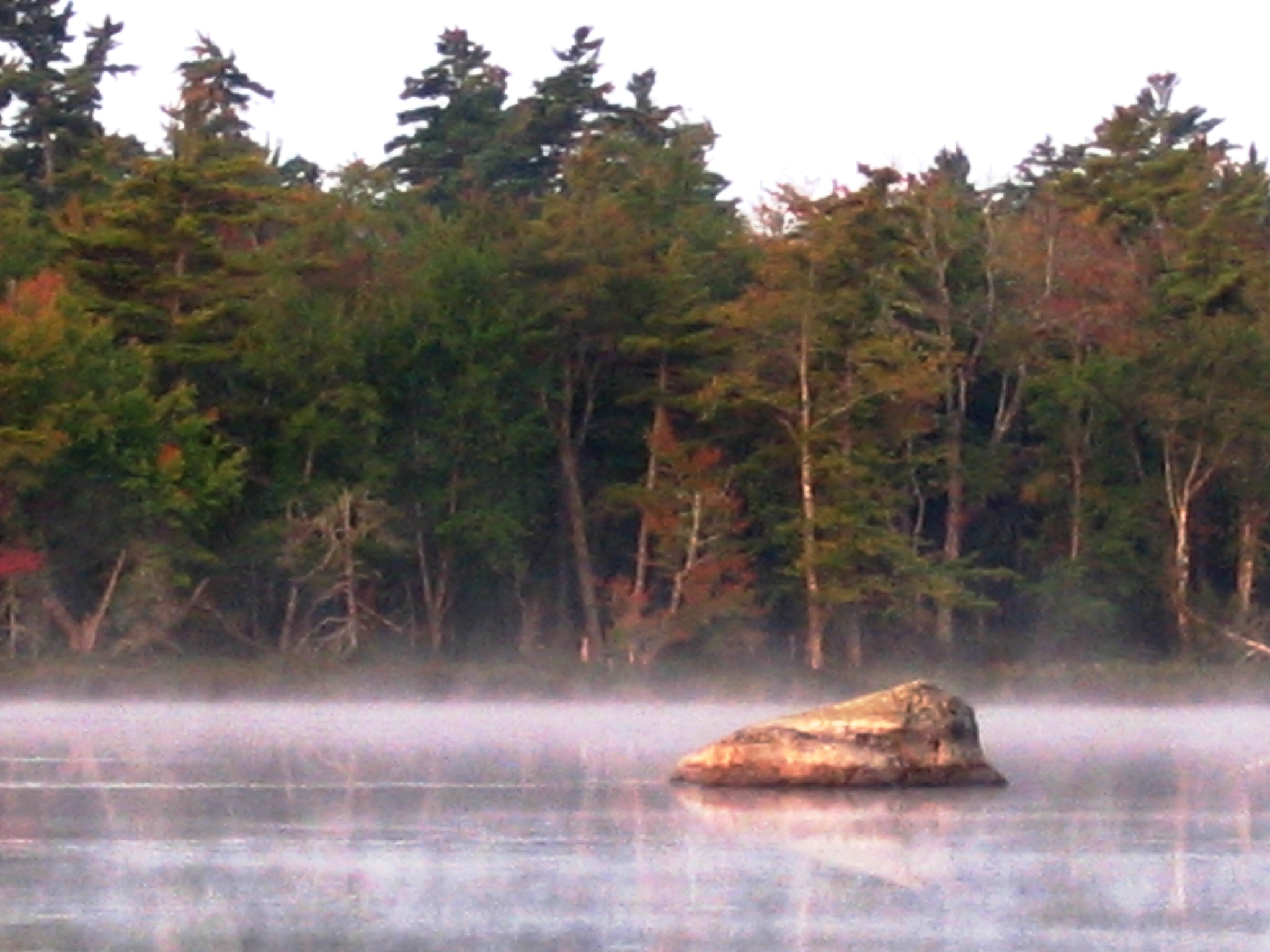 Frozen Ocean Lake on a warm fall morning (Photo taken by Davis Bennett)